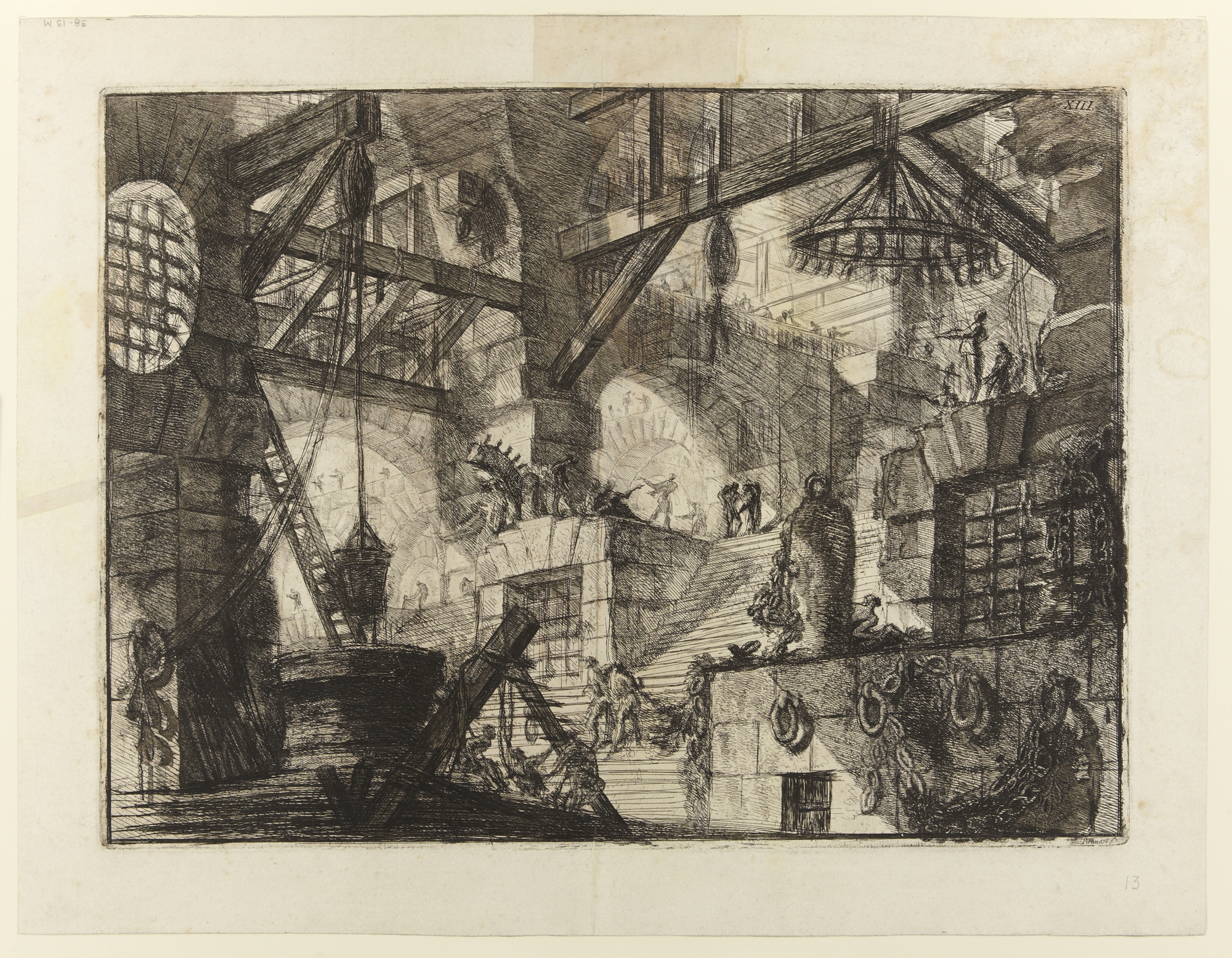 13th plate in the second edition of Le Carceri d'Invenzione